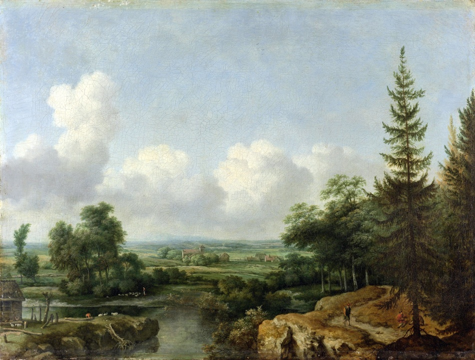 Zweeds landschap (Rijksmuseum Amsteram)